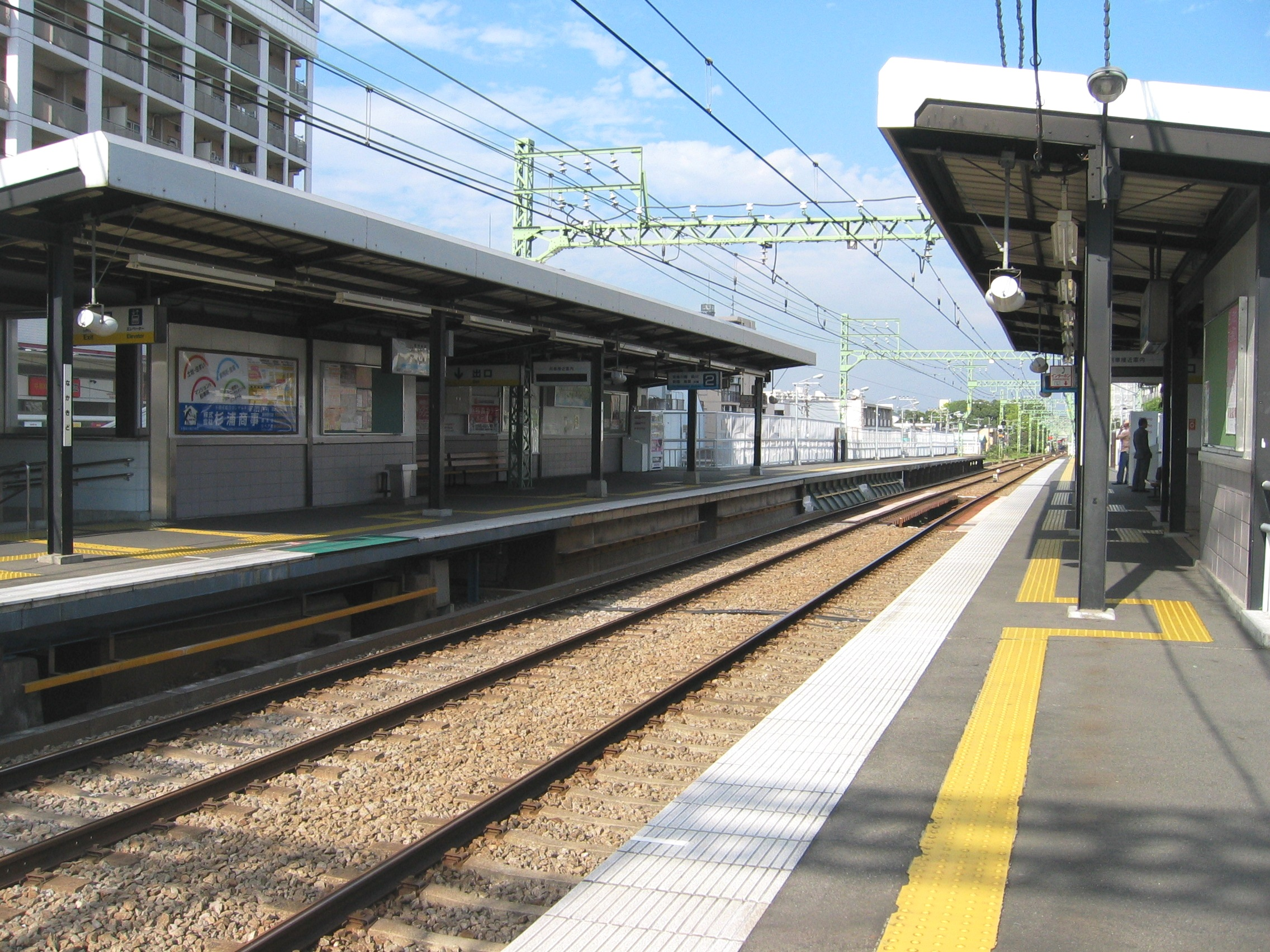 The platforms at Nakakido Station on the Keikyu Main Line in Yokohama, Japan